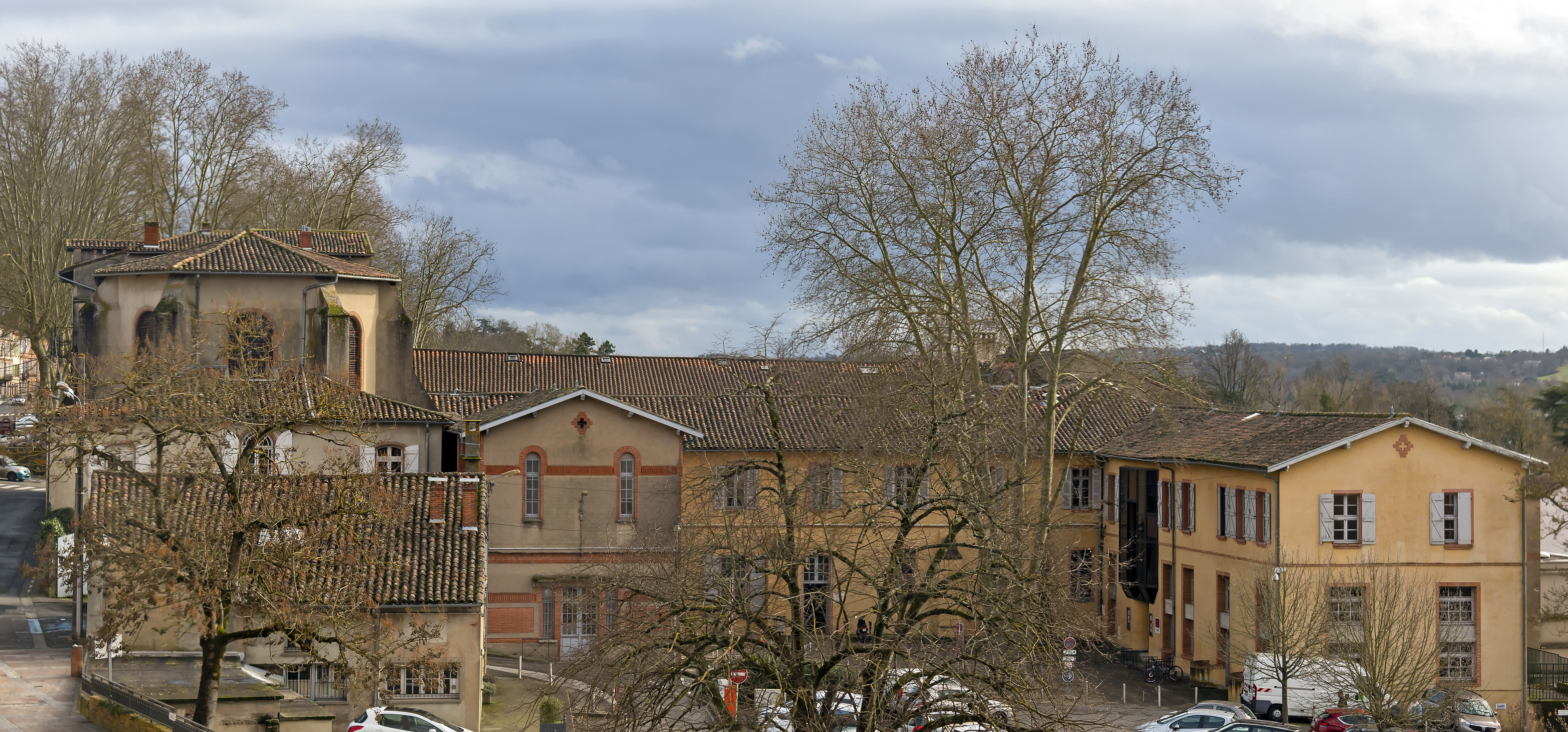 Former chapel of Crames. January 20, 1793, Jeanbon Saint-André, pastor and conventional gets the official handover to the Protestant chapel that became the Temple of the Carmelites view from musée Ingres-Bourdelle Montauban.